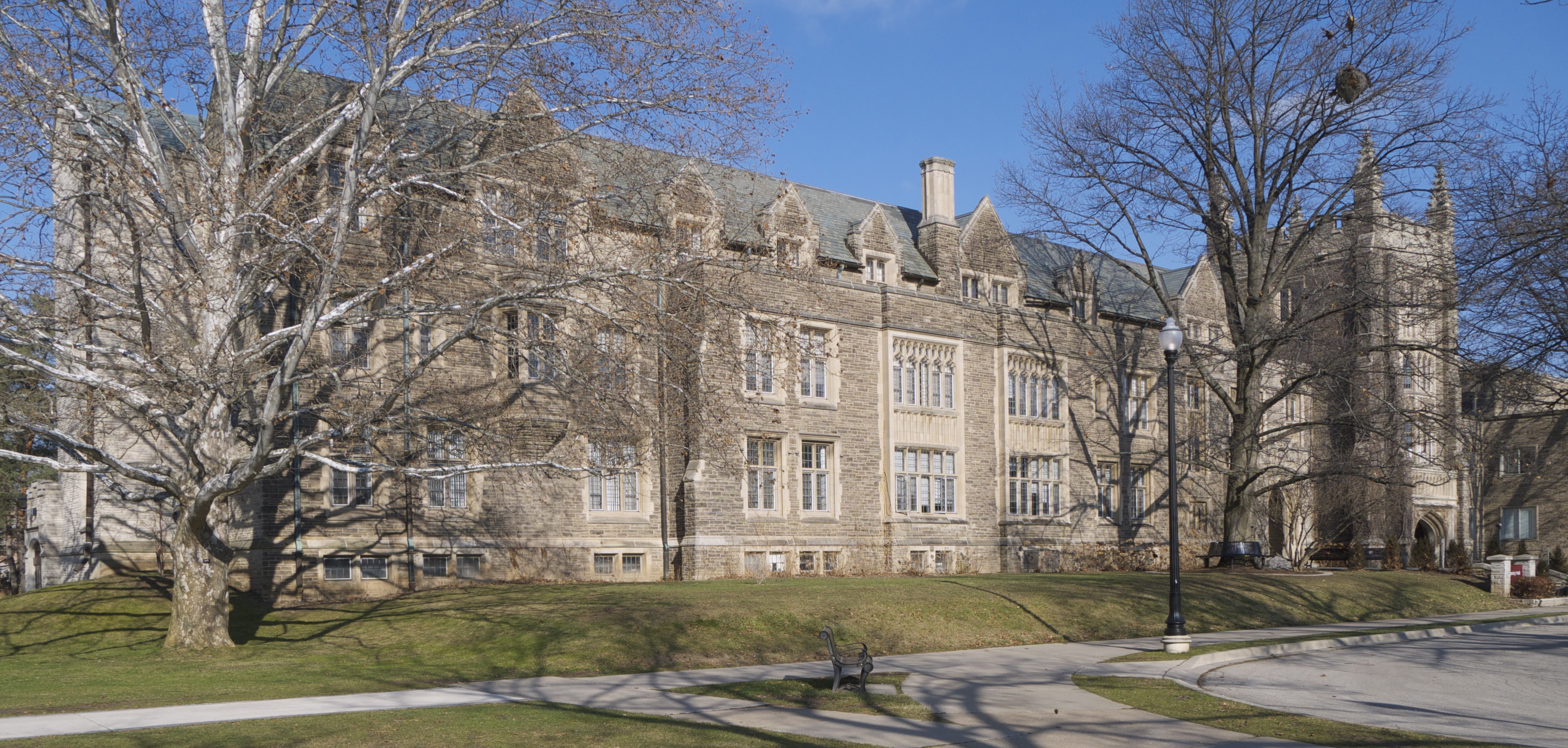 University Hall on McMaster University campus in Hamilton, Ontario.